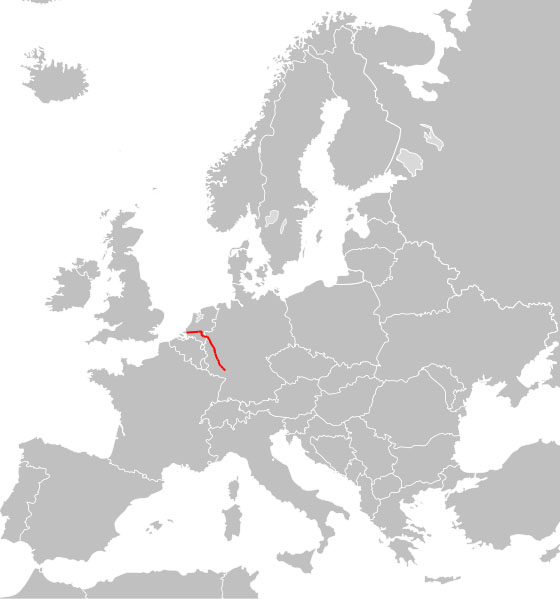 The European route 31